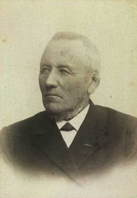 Christen Pedersen Aaberg (1819-1897), Danish farmer and politician, MP